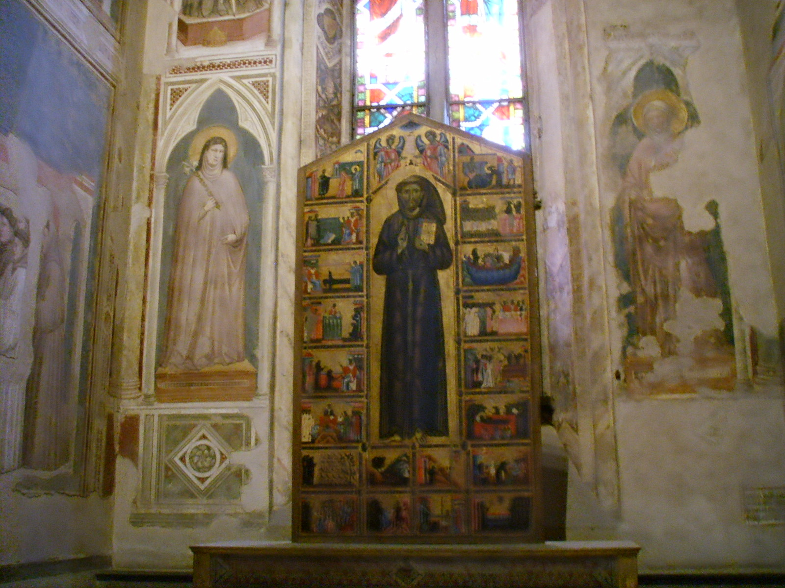 Santa Croce church, frescoes by Giotto, inside, in Florence, Italy